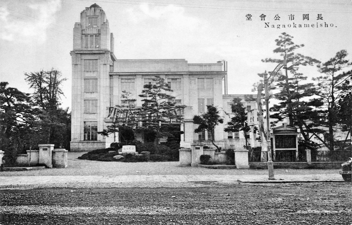 Postcard of the Nagaoka City Kōkaidō (Nagaoka City Public Hall) in early Shōwa era